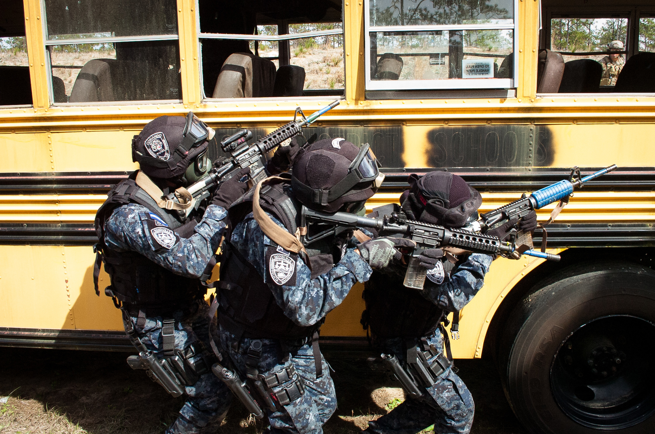 Honduran TIGRES clear along the side of a school bus used as a training aid located on an Eglin Air Force Base range Feb. 27. The TIGRES, a counter-narcotic and counter-trafficking force, were participating in culmination exercise testing the nearly two weeks of advanced training they received from Special Forces soldiers of the 7th SFG (A).